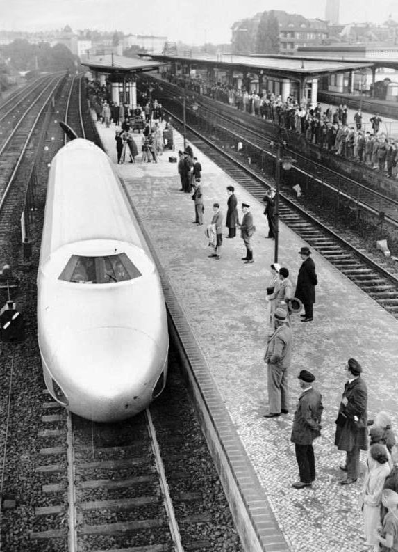 The historic arrival of the famous "zeppelin on rails" in Berlin early on the morning.